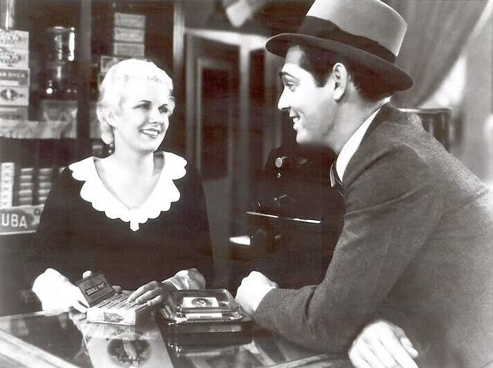 Jean Harlow and Clark Gable in a promotional still from the 1931 film The Secret Six, directed by George W.Hill.